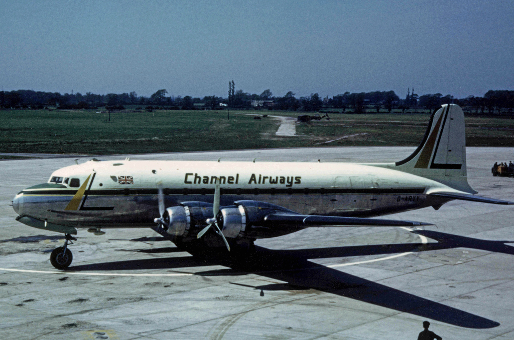 Channel Airways Douglas DC-4 at Manchester Airport operating an inclusive tour service to Ostend